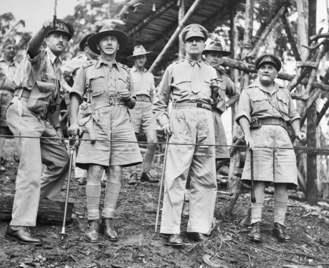 New Guinea. October 1942. Pictured, left to right: Australian Colonel Charles Spry points out locations of heavy fighting between Allied ground forces and the Japanese to Lieutenant General Edmund Herring, General Douglas MacArthur, Supreme Commander, South West Pacific Area, and Major General Arthur Samuel Allen, Commander, Australian 7th Division.